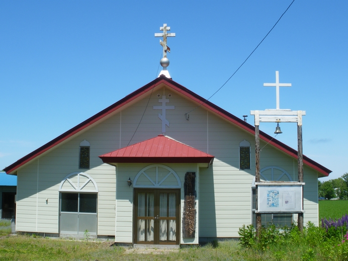 Orthodox Church in Shari, dedicated to Annunciation, belonging to Orthodox Church in Japan.